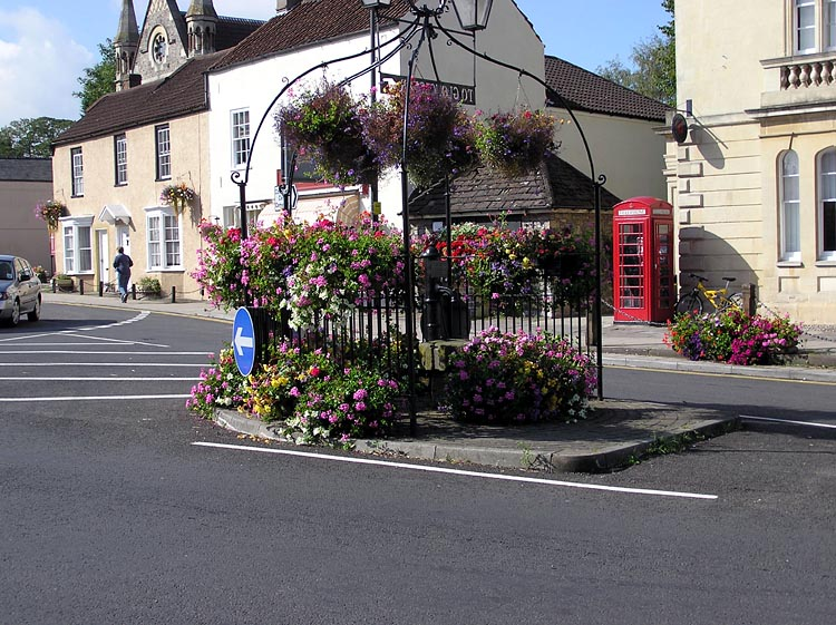 Thornbury Pump, Thornbury, near Bristol, England. Taken by Adrian Pingstone in September 2004 and released to the public domain.